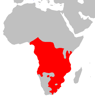 Approximated distribution of Bantu languages in Africa, own work